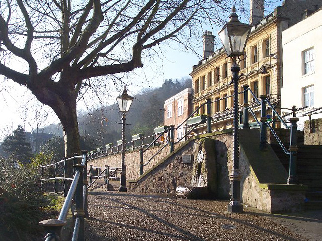 Malvina Fountain Located on Belle Vue Island not far from Elgar's statue and the Enigma Fountain. By Rose Garrard.